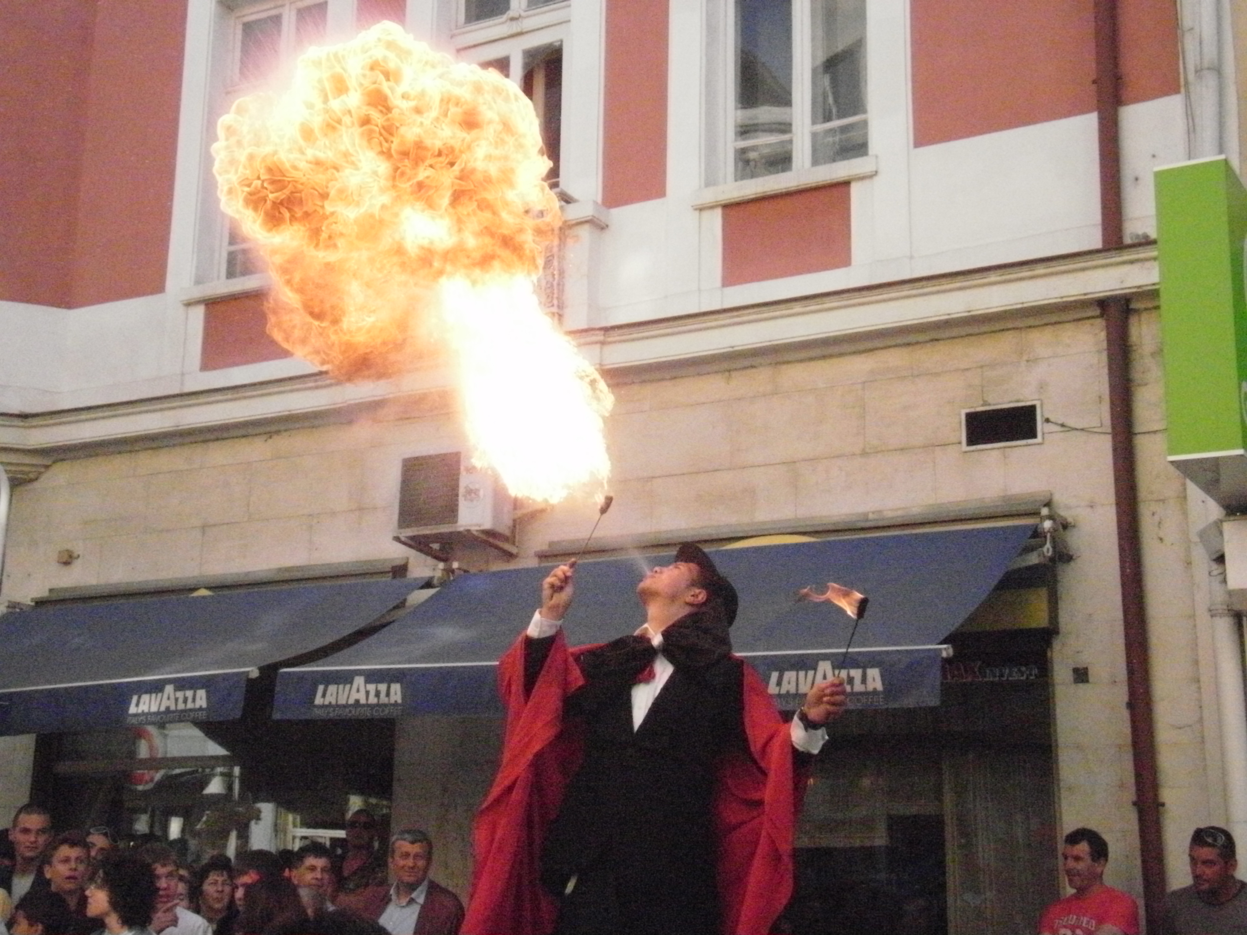 2011 Gabrovo Carnival